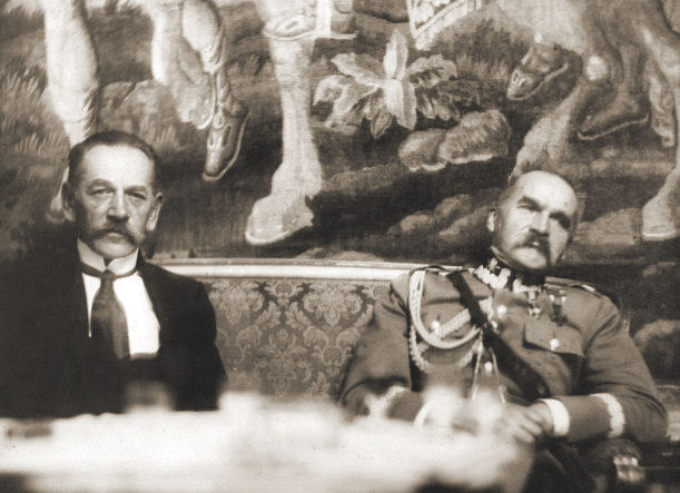 Jędrzej Moraczewski and Józef Piłsudski